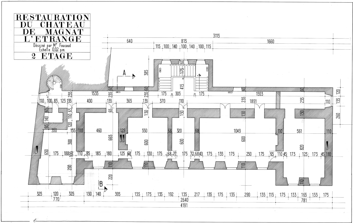 2eme etage chateau